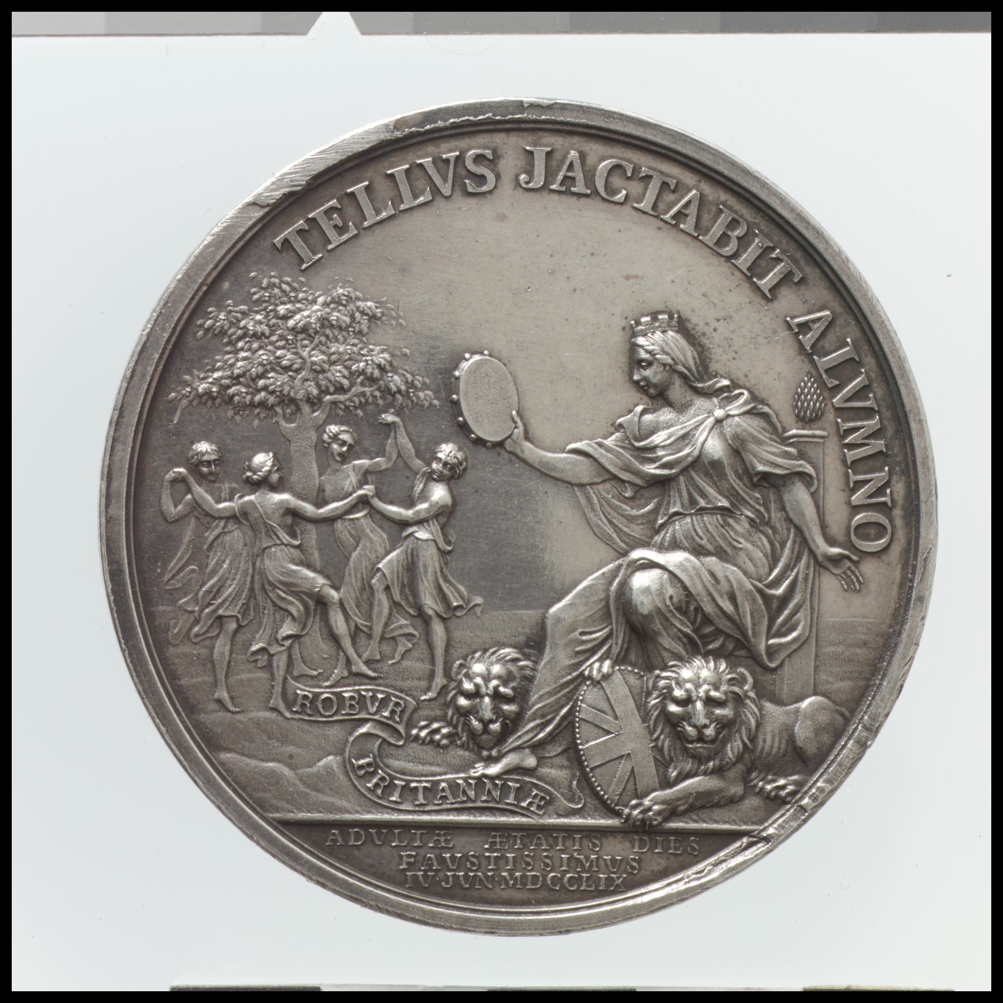 British; Medal; Medals and Plaquettes